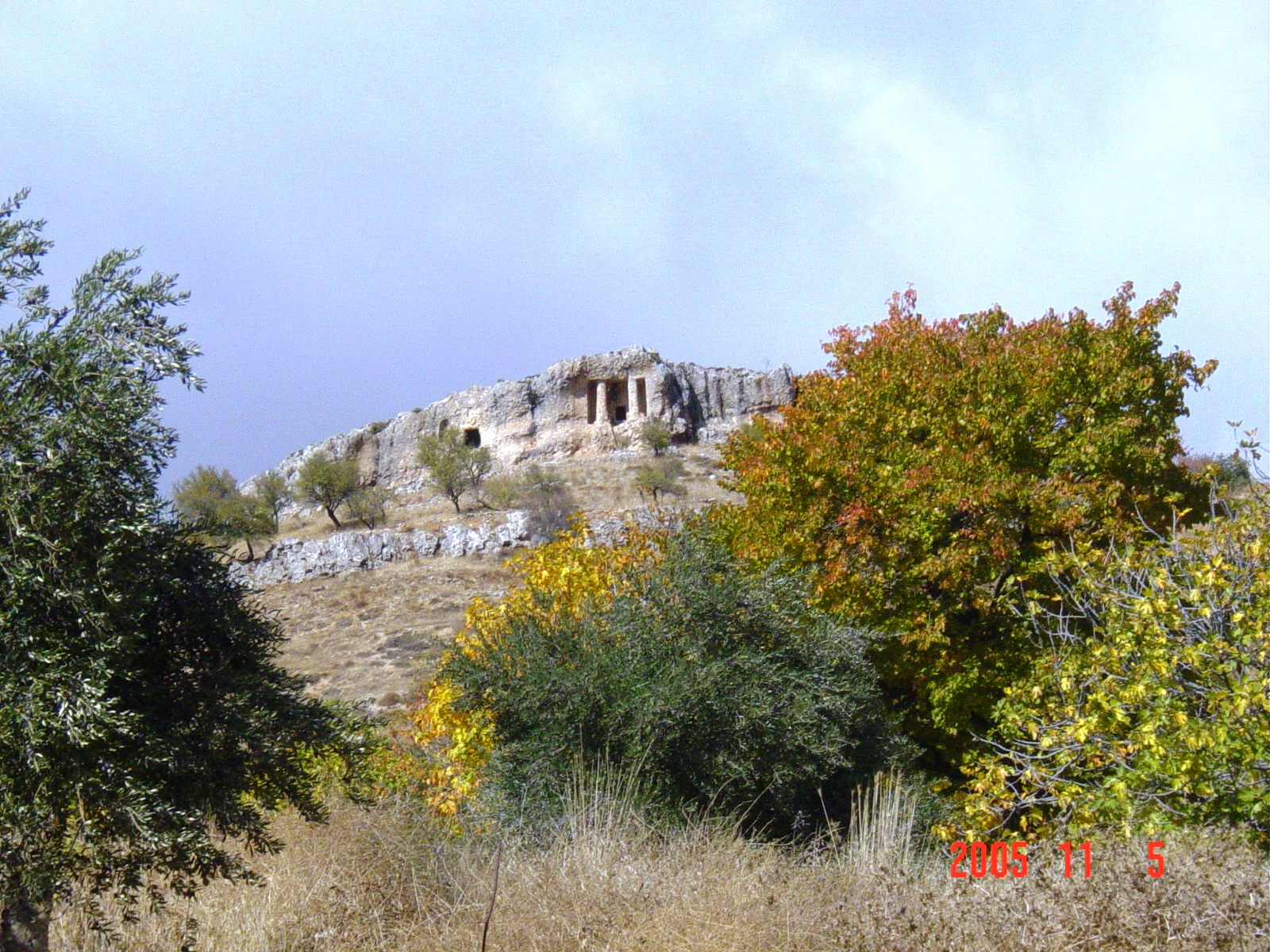 Bireh town